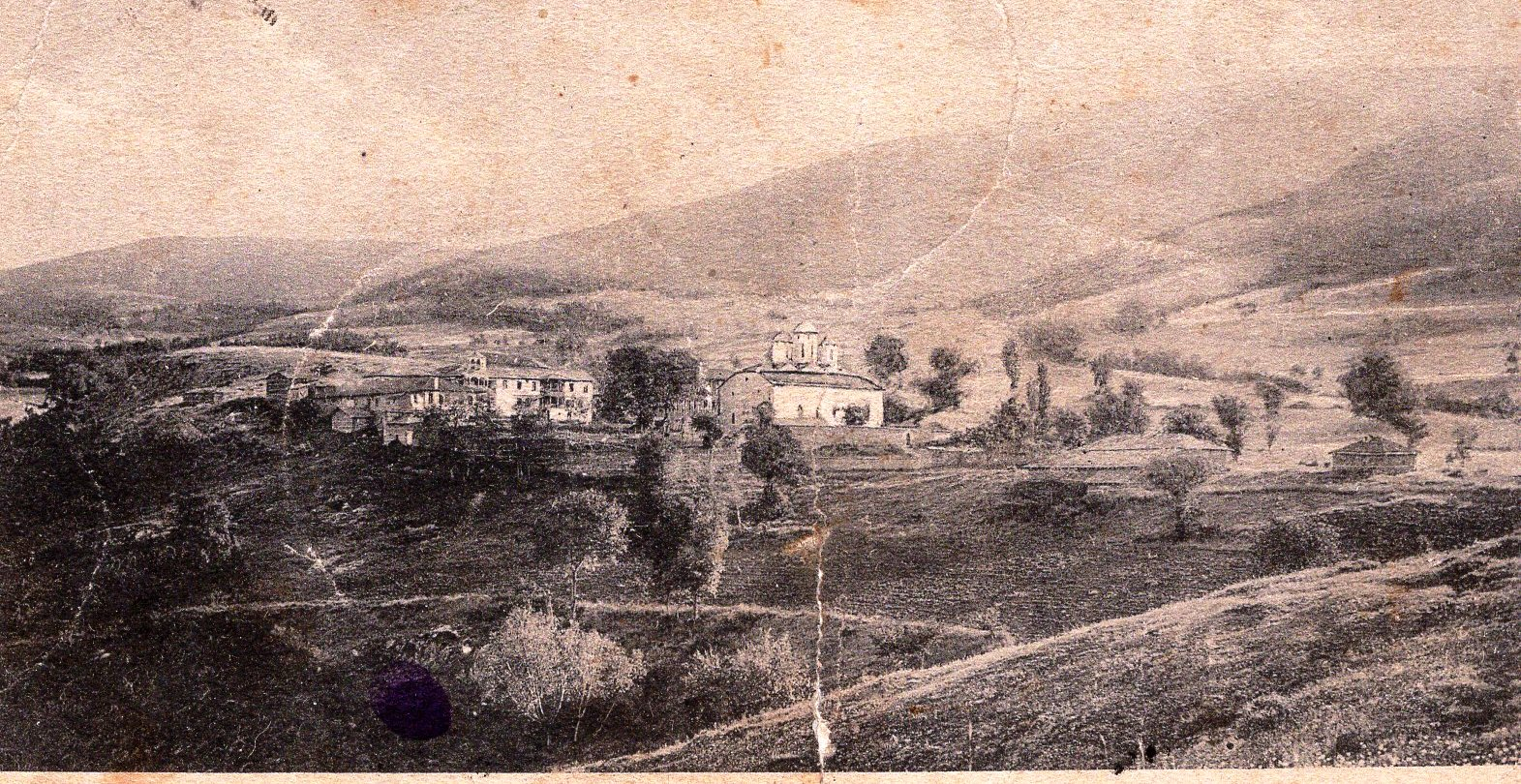 Postcard of Monastery St. Panteleimon, Kočani Municpilaity, from 1909 This media file is produced by Wikipedian in Residence in Category:Wikipedian in Residence at DARM in 2016.